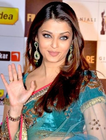 Indian actress Aishwarya Rai at the Filmfare Awards 2010 nominations bash